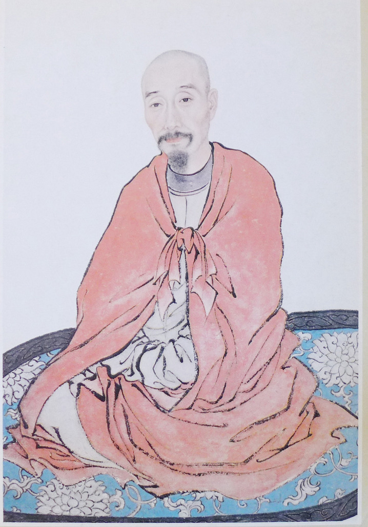 Portraite of Ba Weizu(1743-1793): lower part by Min zhen (1730-ca. 1788) color and ink on paper , Palace Museum, Beijing